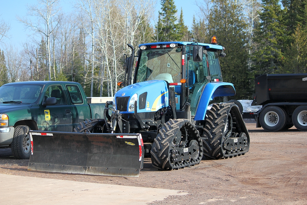 New Holland T5060 tractor with rubber tracks and snow plow; Minnesota, USA.